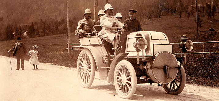 First Semmering Race on 27 August 1899. Class winner Emil Jellinek in driver's seat of his Daimler 16 hp "Phoenix" racing car, seated next to him is Hermann Braun.